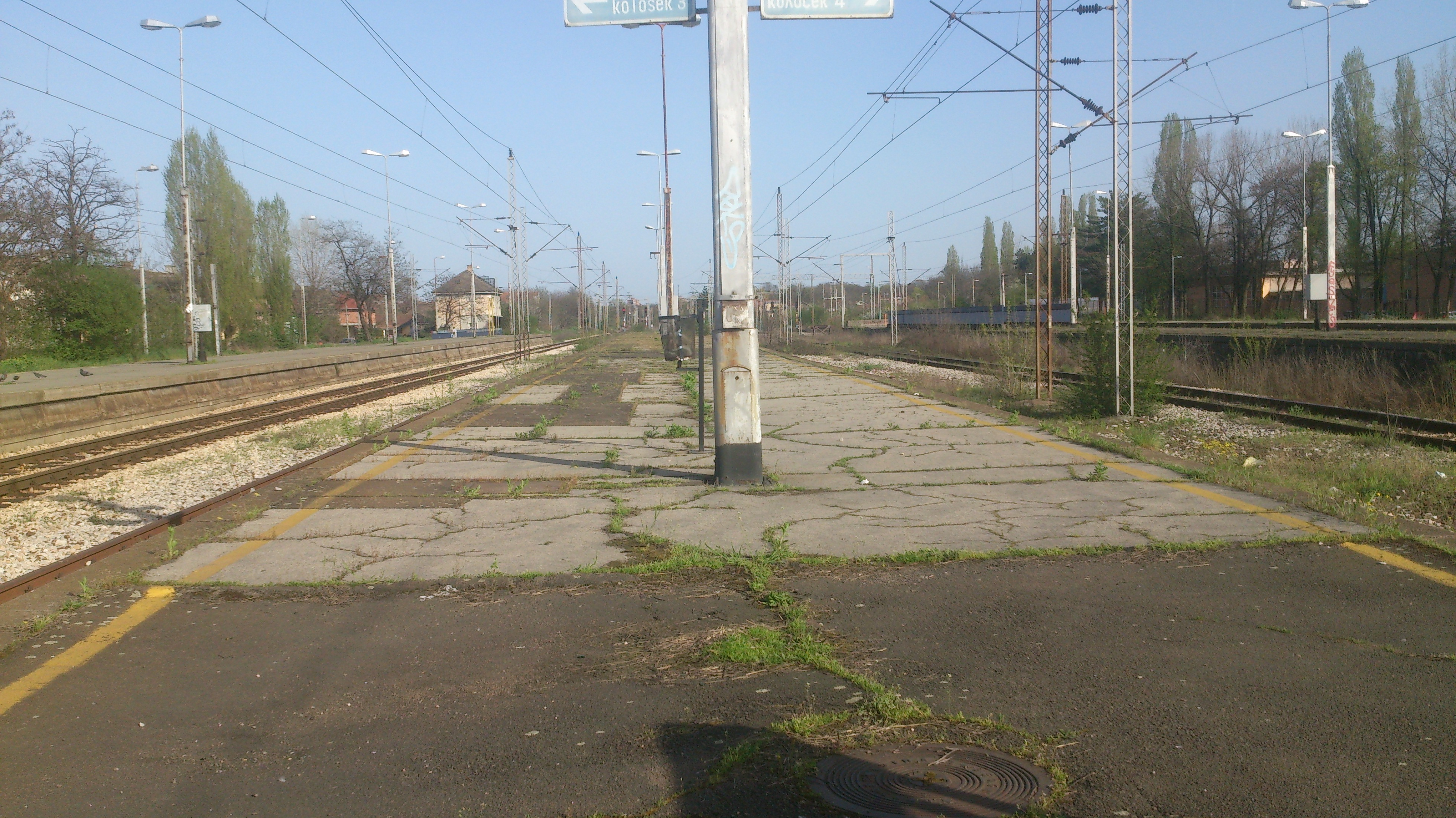 Zemun railway station at day